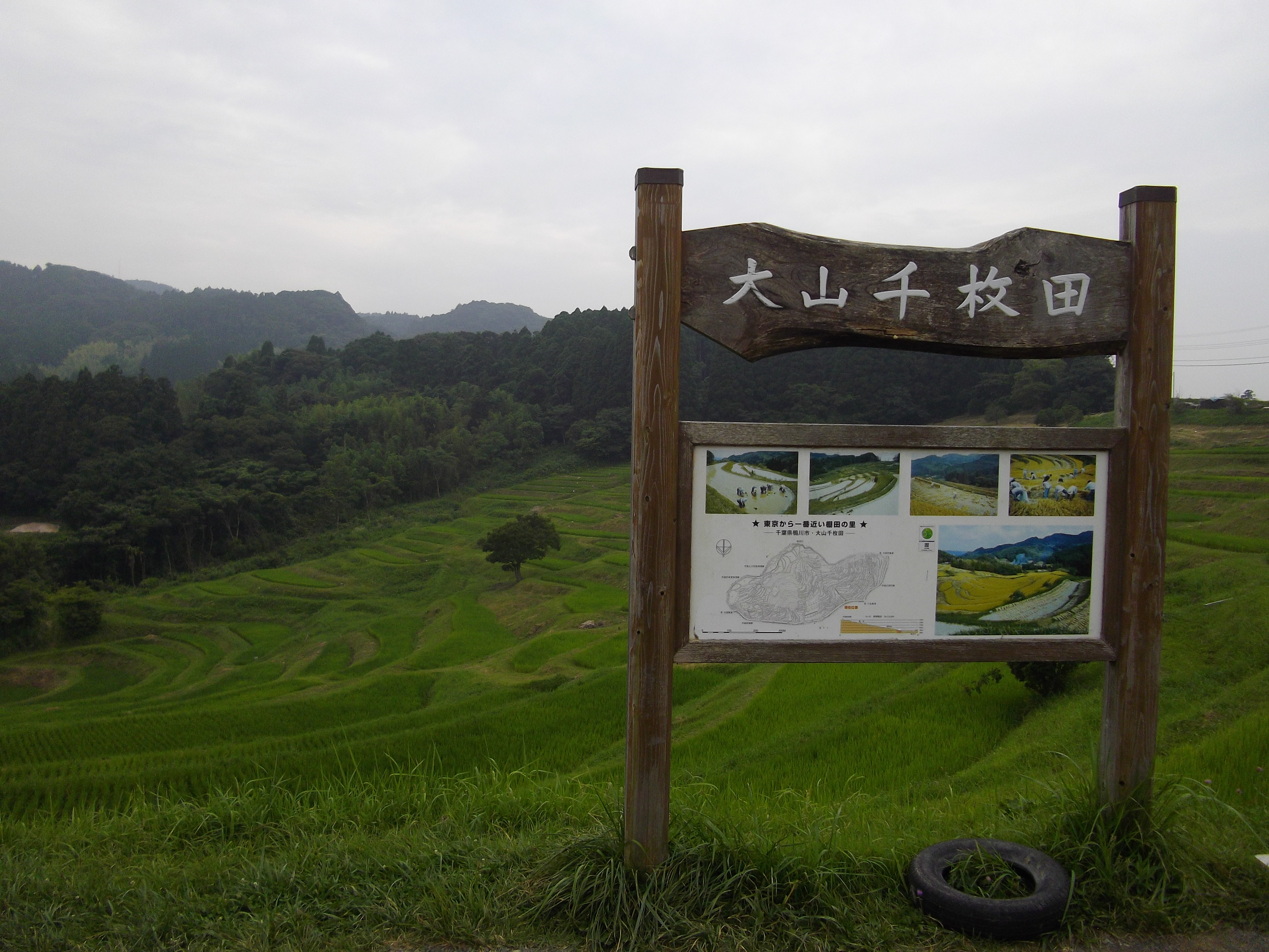 Oyama Senmaida and its sign in Kamogawa city, Chiba prefecture.